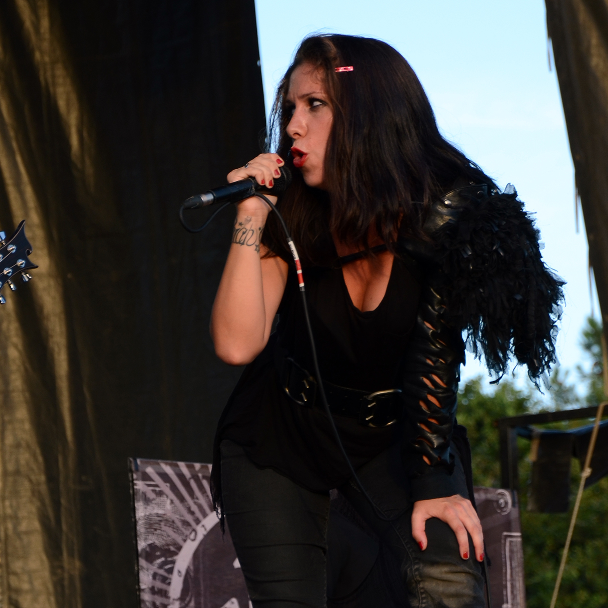 Candice, the singer of Eths, performing at the Motocultor Festival, in Theix (Morbihan, France), on the 17th of August 2012.